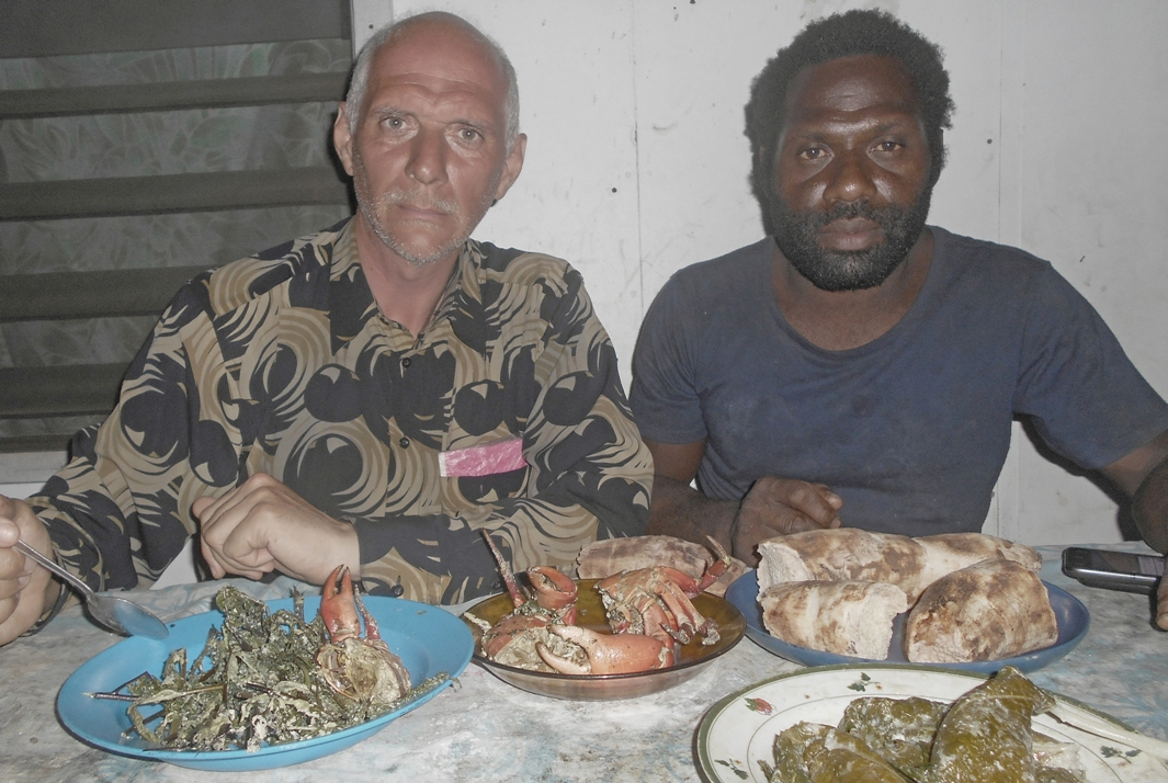 Ranwas village, Pentecost Island, photo from book Pinchuk V. V. "Two months of wanderings and 14 days of unfreedom", ISBN 978-5-9909912-5-5.